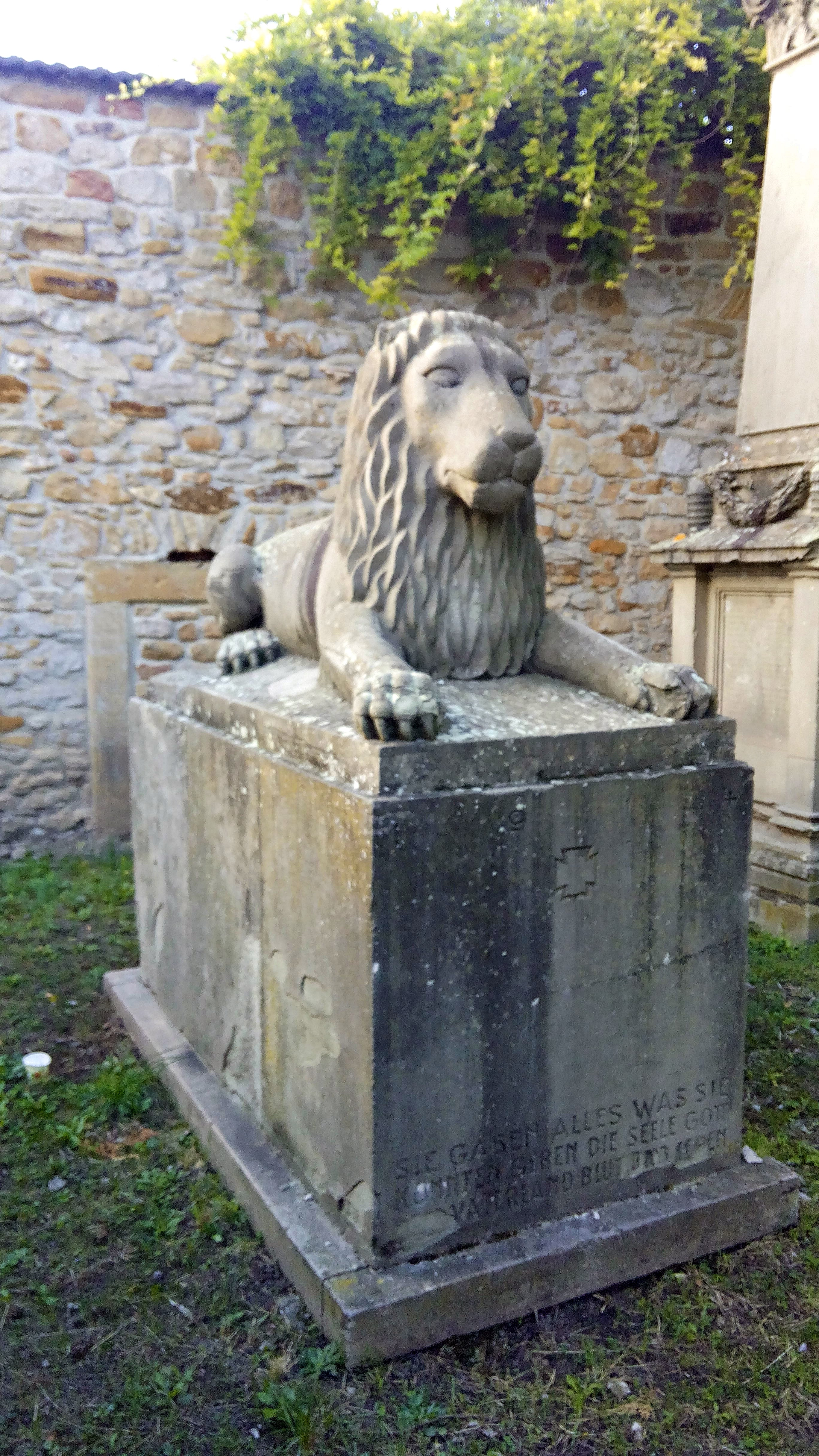 Kriegerdenkmal Lambsheim (1927) von Theobald Hauck